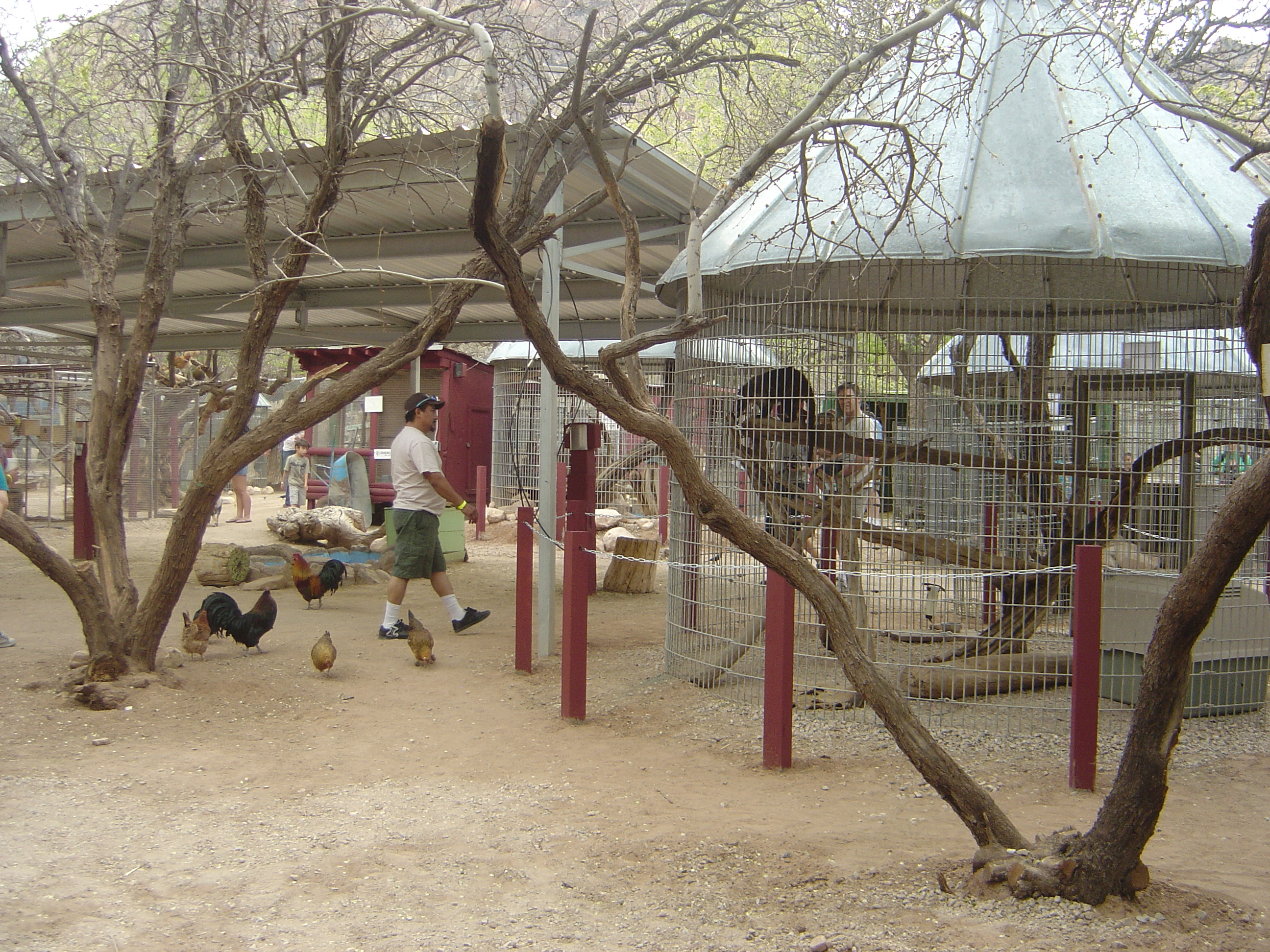 The zoo at Bonnie Springs Ranch, near Las Vegas, Nevada.